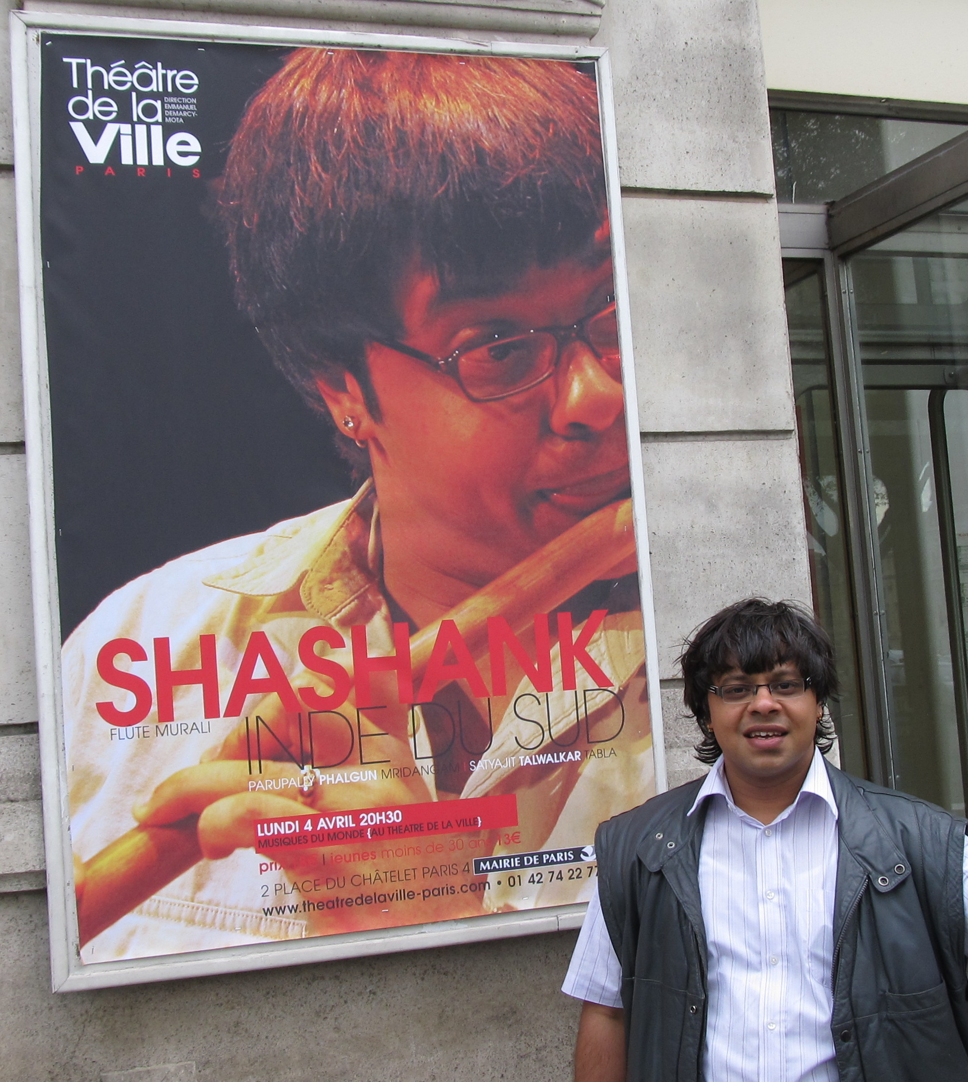 Shashank at Theater de La Ville, Paris, France - 2011